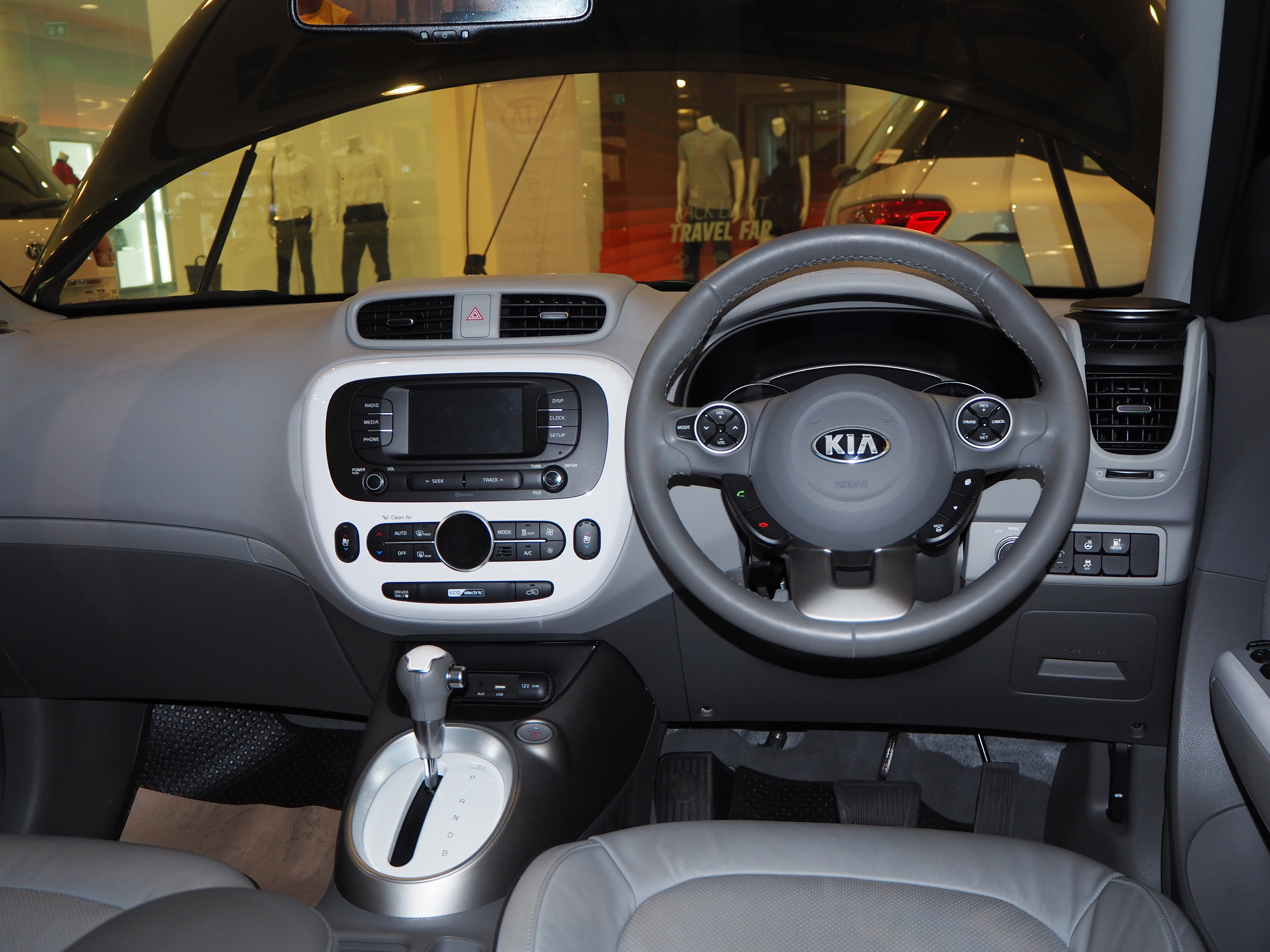 2017 Kia Soul EV in Central Plaza Khon Kaen, Khon Kaen, Thailand.